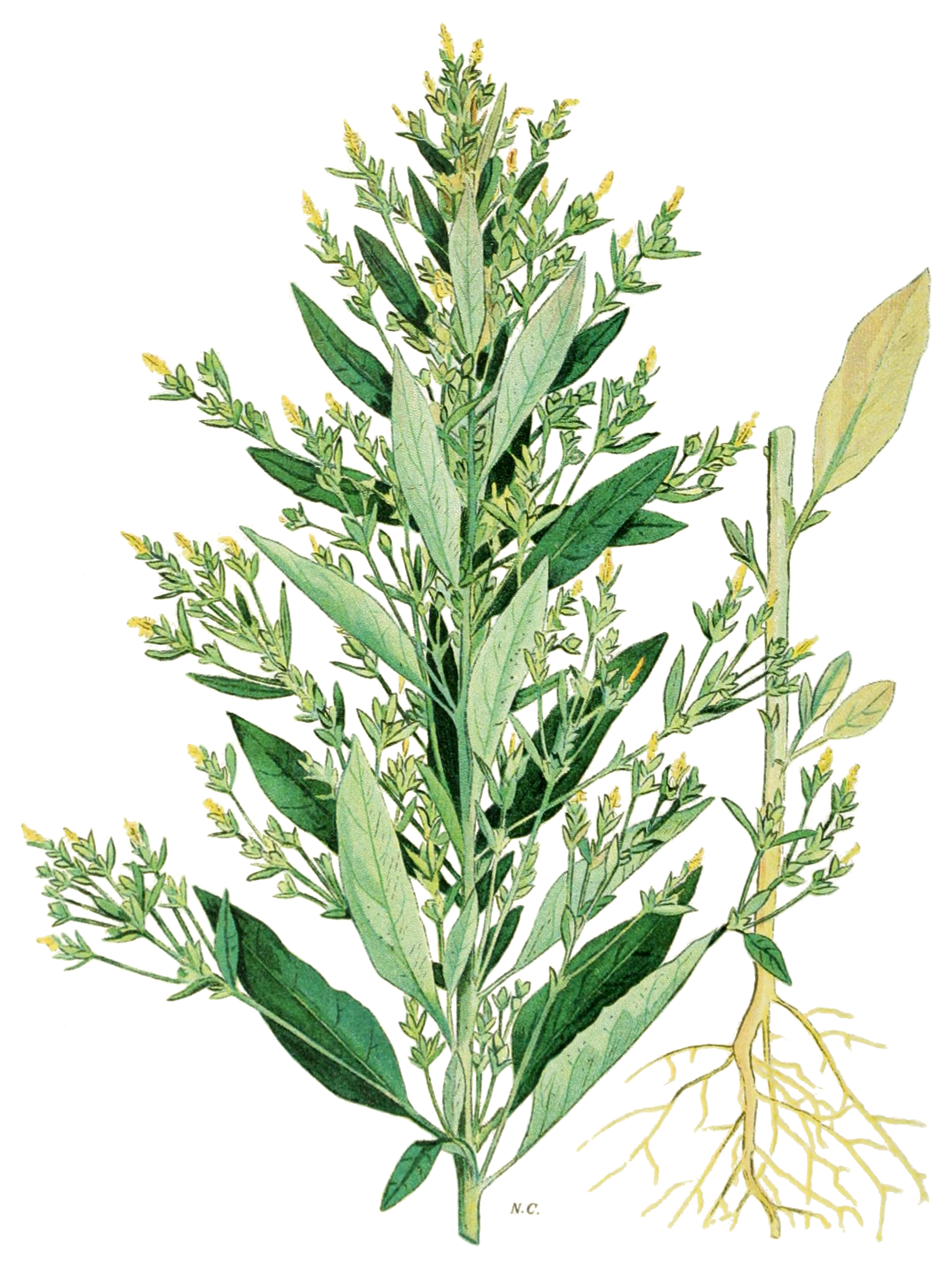 Axyris amaranthoides L. - Russian pigweed - illustration from Clark, G.H., Fletcher, J., Farm weeds of Canada, t. 41 (1906)